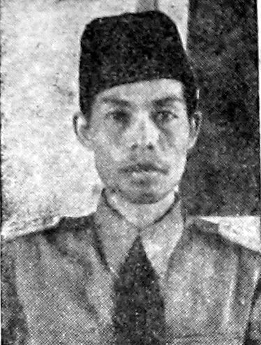 Portrait of General Sudirman